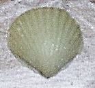 Clam Sea shell bath salt tablet (shown) Each tablet weighs 2 Ounces. Ingredients: Water, essential oil fragrance, powdered sea salt, food color